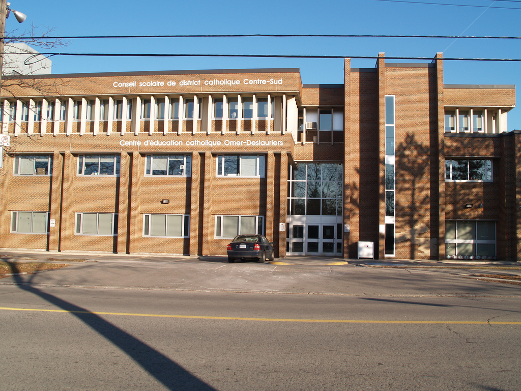 The Centre d’éducation catholique Omer-Deslauriers ("Omer Deslauriers Centre of Catholic Education"), the headquarters of the Conseil scolaire de district catholique Centre-Sud